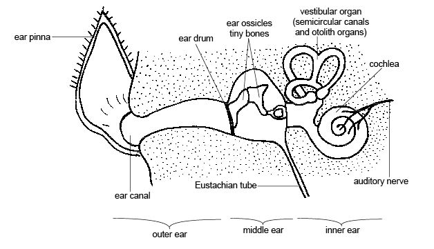 By Ruth Lawson. Otago Polytechnic.